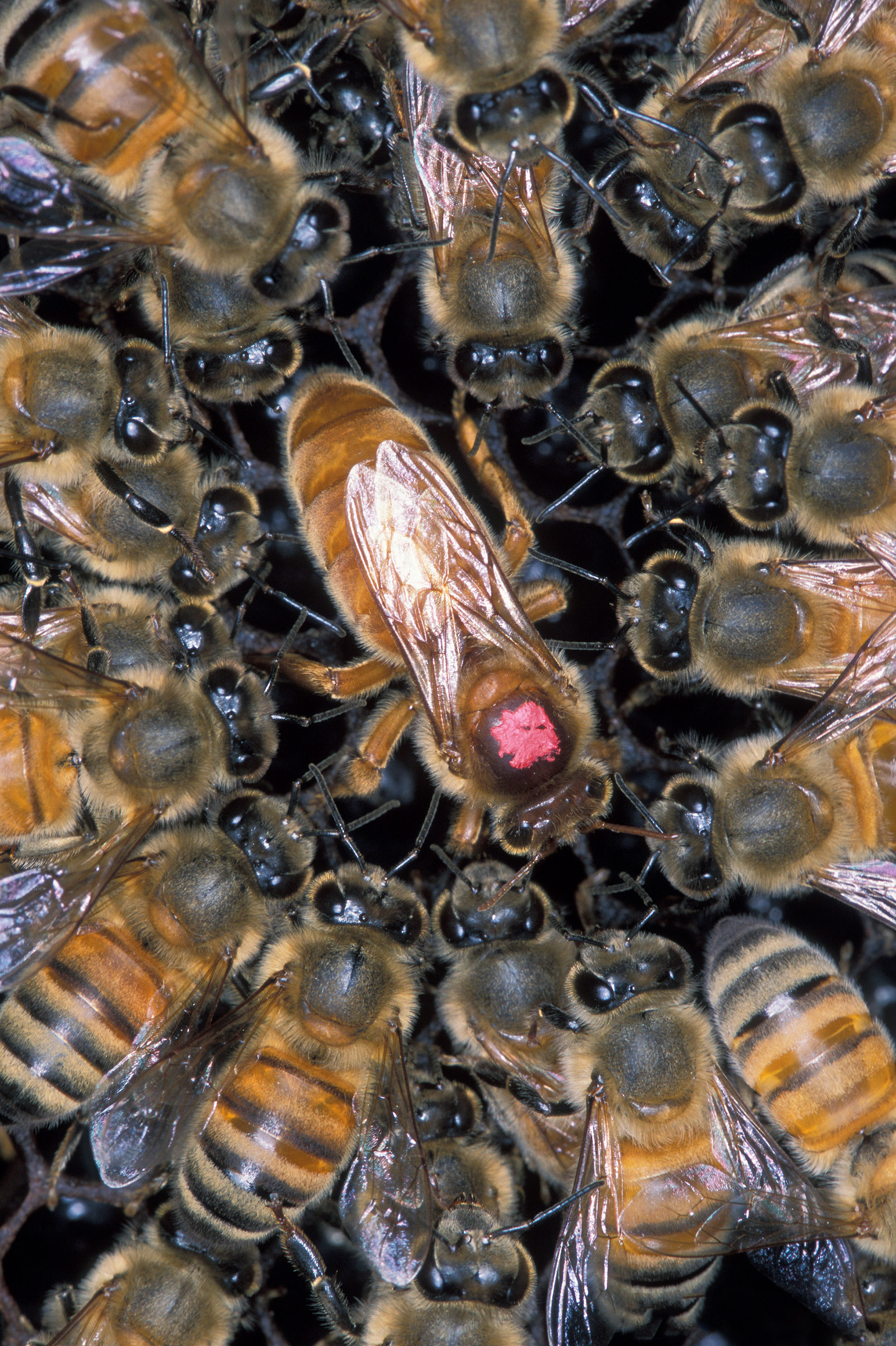 Apis mellifera scutellata Common Name: Africanized honey bee Photographer: Scott Bauer, USDA Agricultural Research Service, United States Descriptor: Feature(s) Description: Closeup of Africanized honey bees (AHBs) surrounding a European queen honey bee (EHB), marked with a pink dot for identification. Since AHBs arrived in Texas in 1990, they've mated with EHBs and spread throughout the Southwest. But rather than commingling, AHBs tend to replace EHBs, partly because EHB queen bees mate disproportionately with African drones. Image taken in: United States